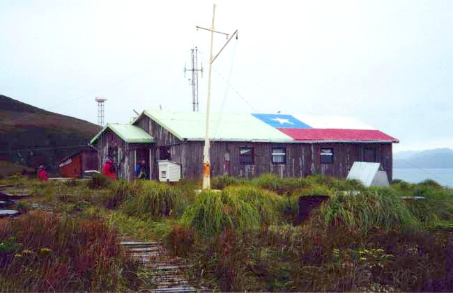 Photo of Chilean station at Cape Horn